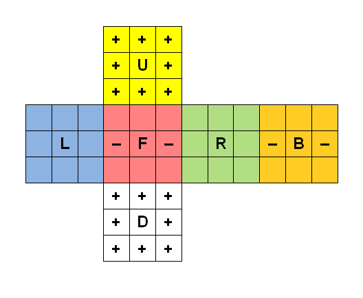 Intermediate goal of the Kociemba's Two-Phase algorithm.